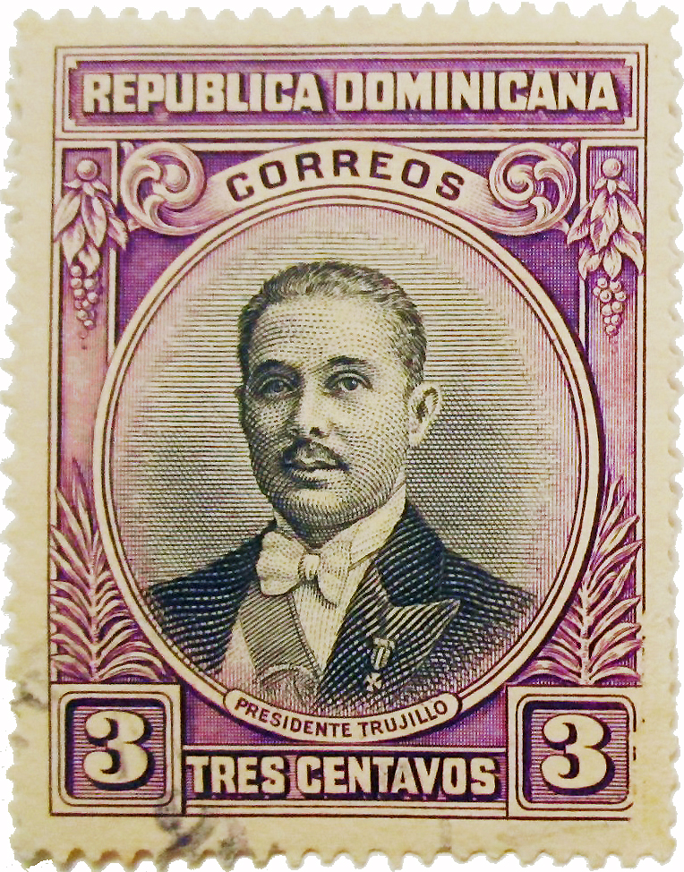 Dominican Republic stamp issued in 1933 on the occasion of President Rafael Trujillo's 42nd birthday. Another stamp showed Trujillo in military uniform.